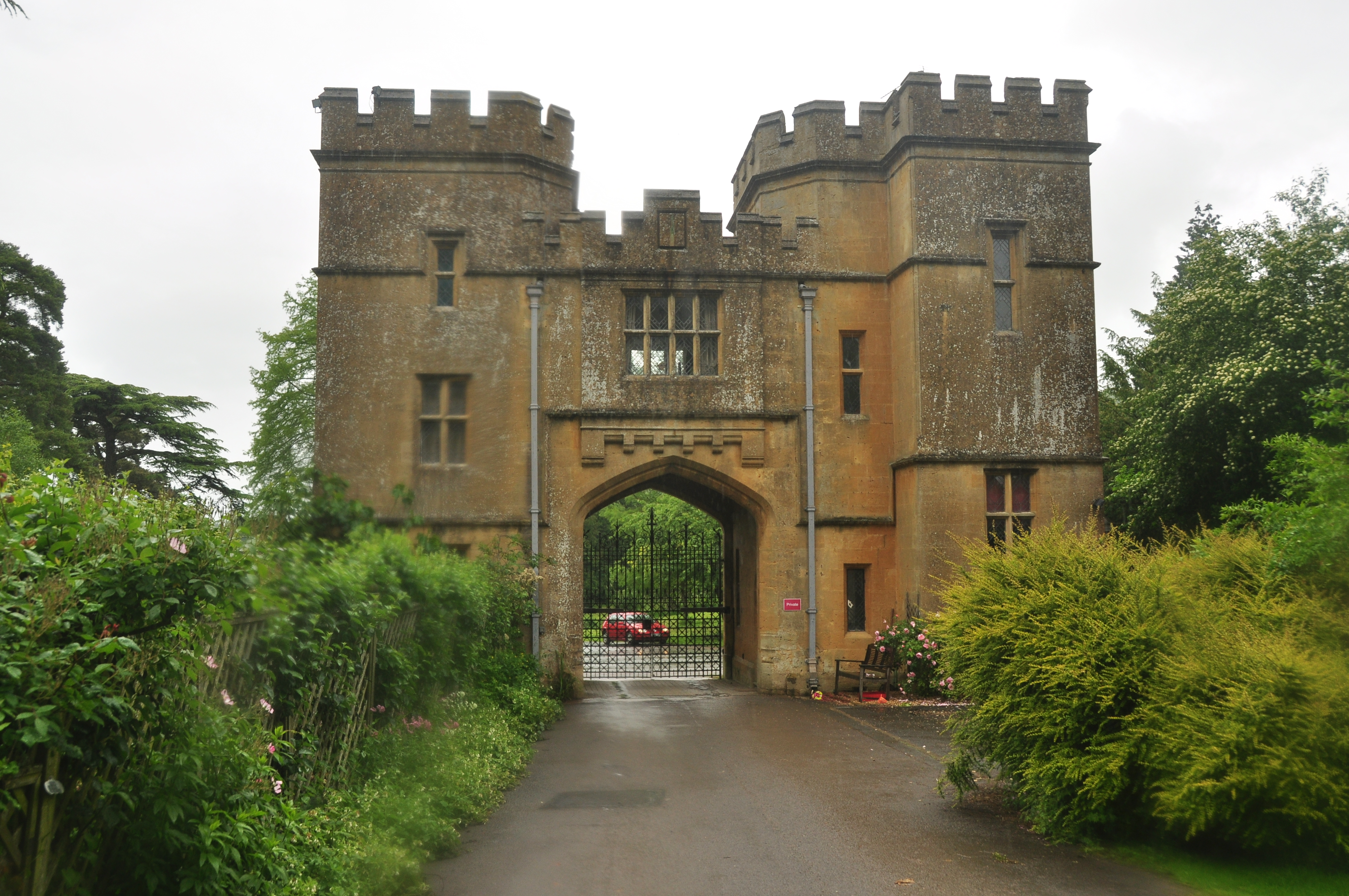 Sudeley Castle gatehouse